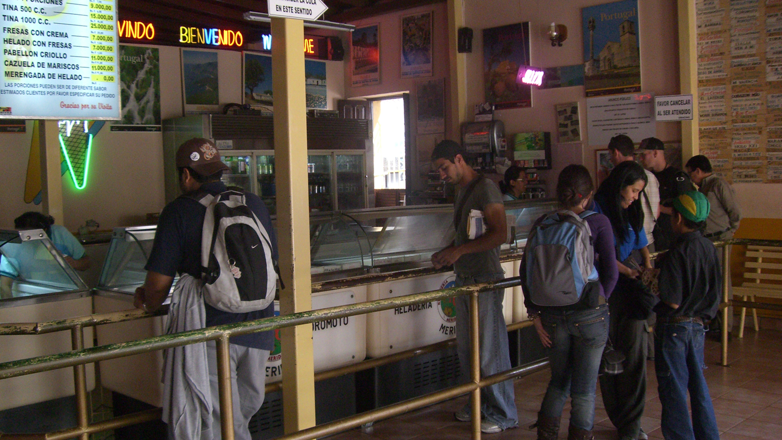 Heladeria Coromoto, Record Guinness.